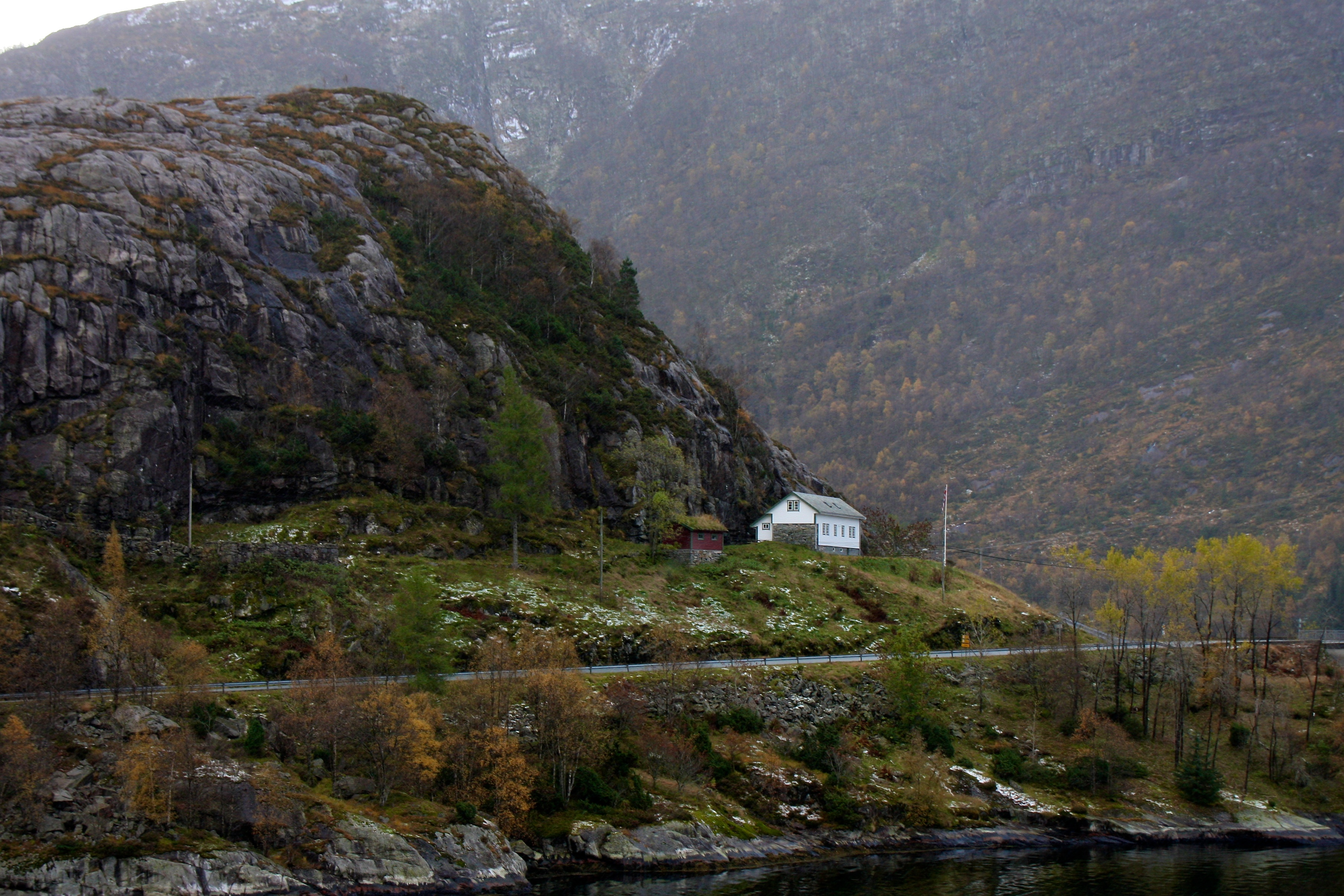 Gulen municipality, Norway.